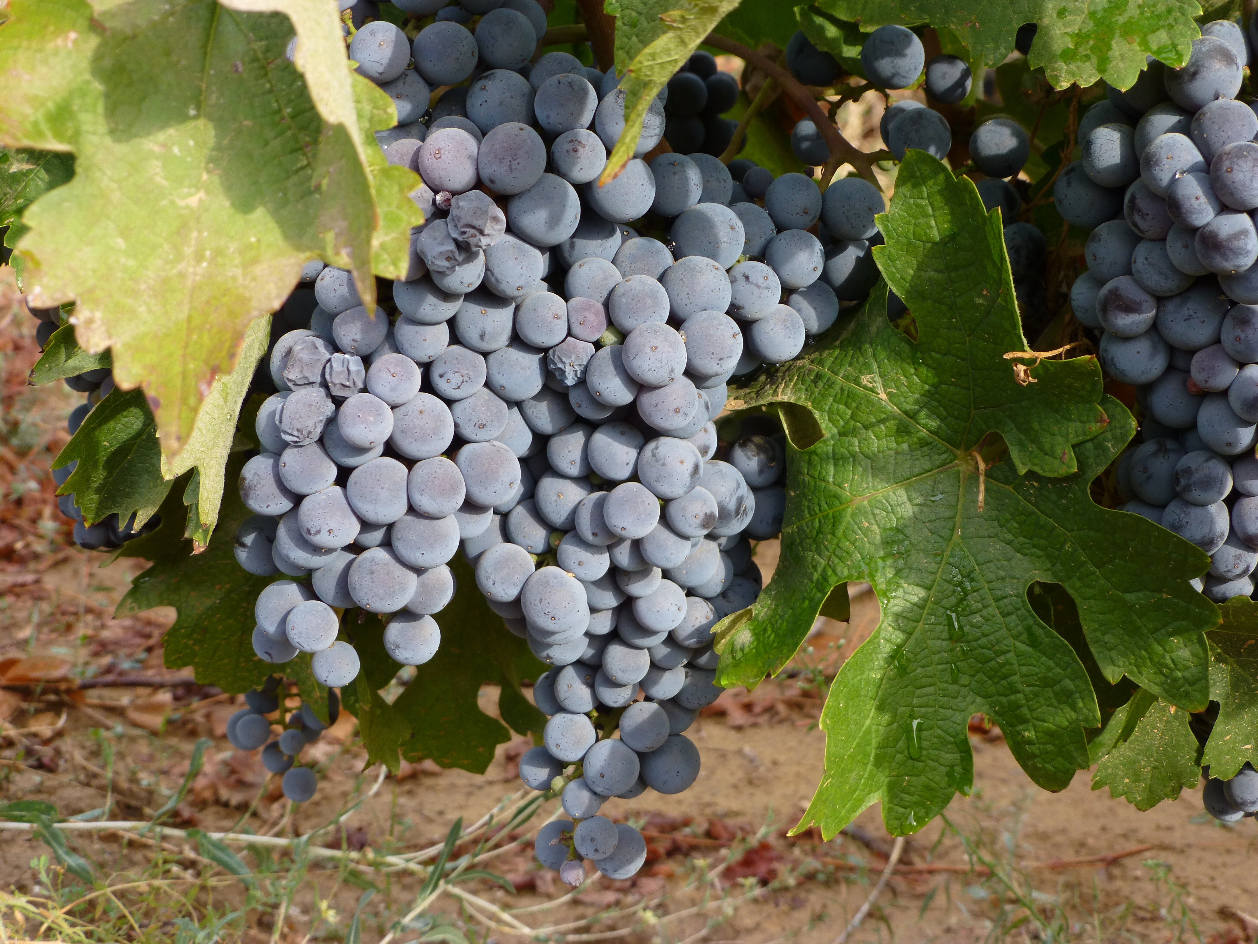 Wine in Turkey